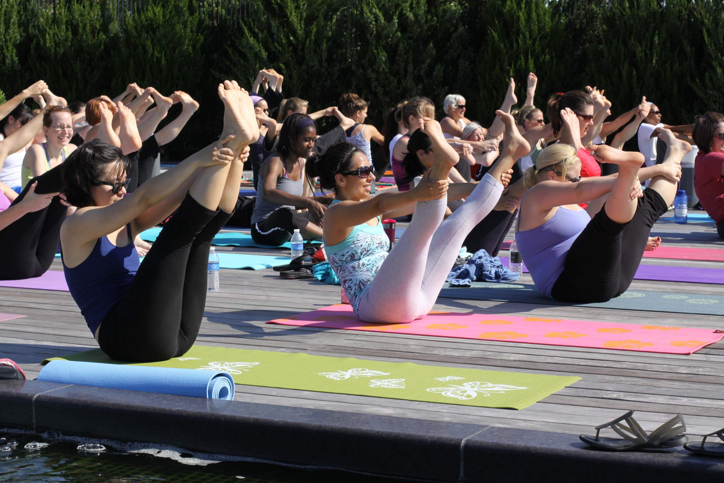 A group of people practicing yoga.